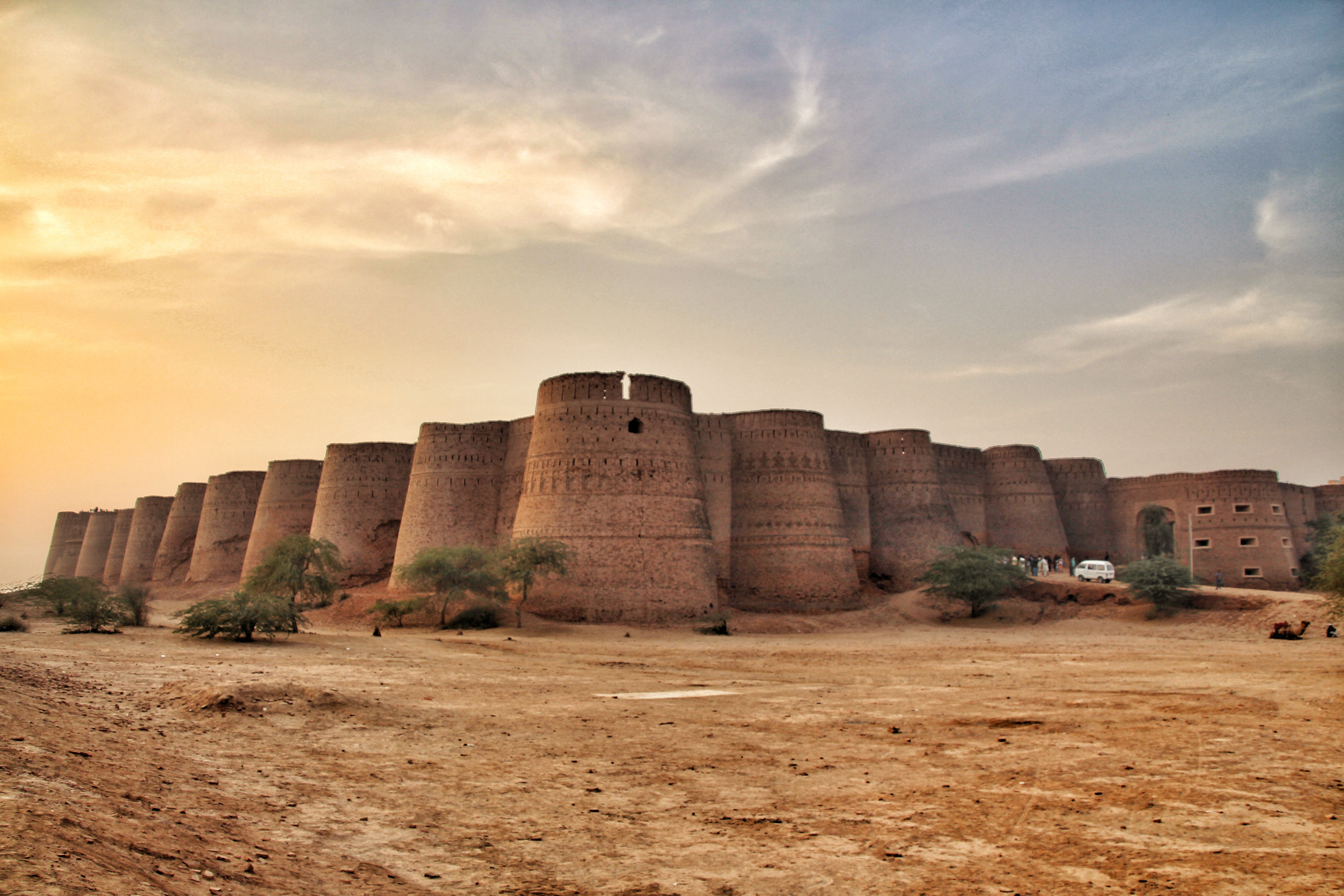 Derawar Fort This is a photo of a monument in Pakistan identified as the PB-U-5